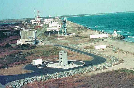 NASA photo of Wallops Island